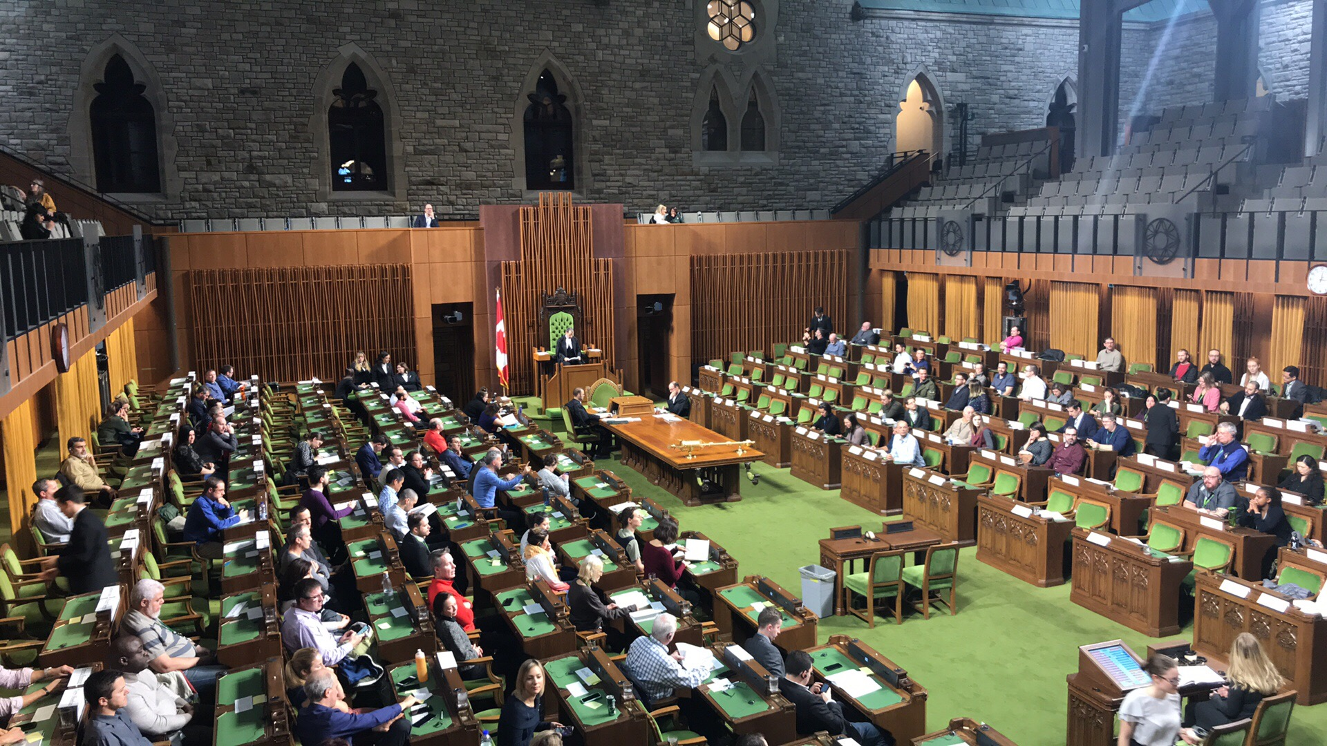 The interim House of Commons Chamber during a dry run of its functions, 16 January 2019. The seats on the Commons Floor are occupied by various staff members who work in the Parliamentary Precinct.